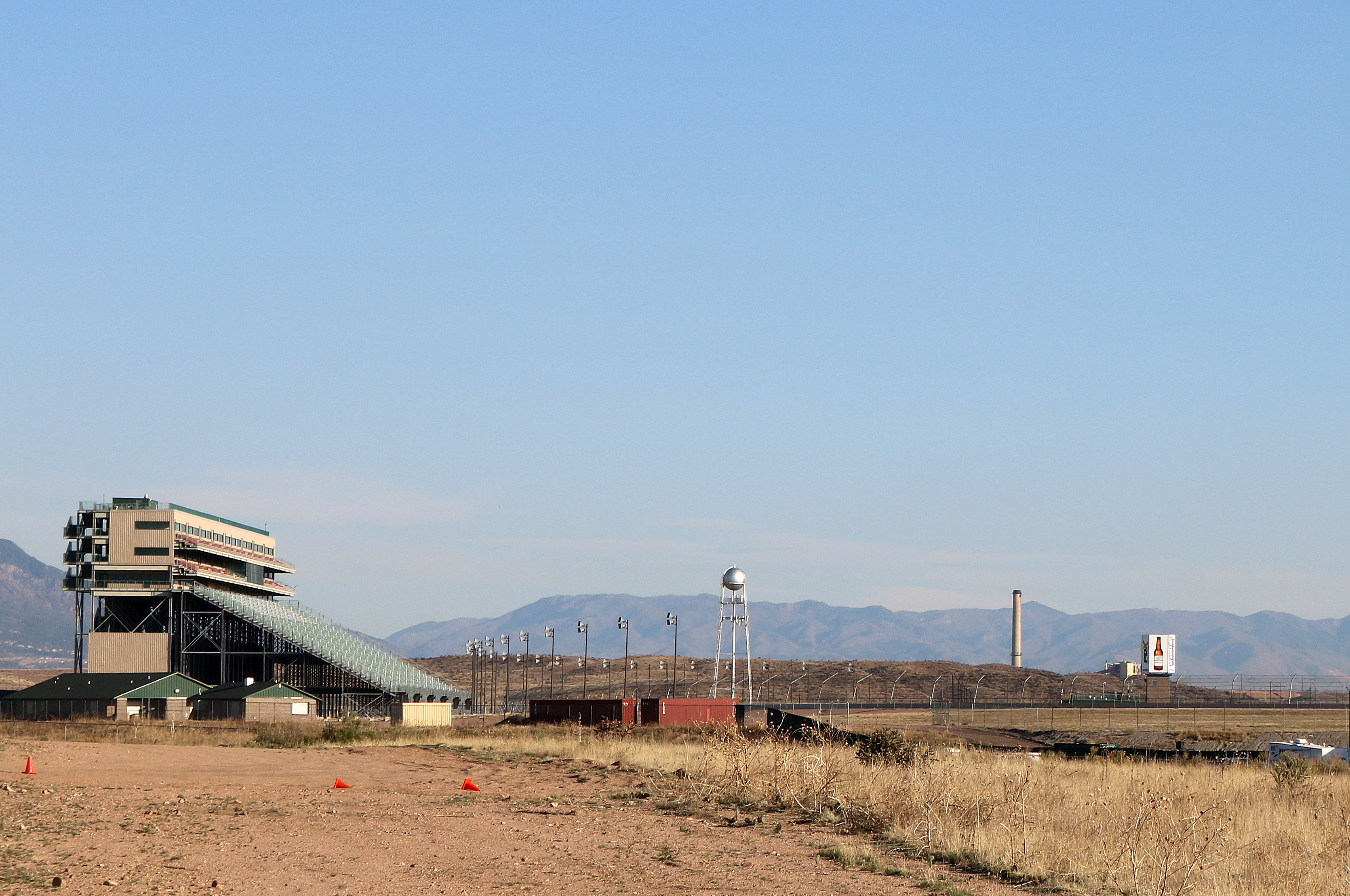 A view of Pikes Peak International Raceway from the south, showing the stands and part of the infield area. The raceway is located at 16650 Midway Ranch Road, Fountain, Colorado.